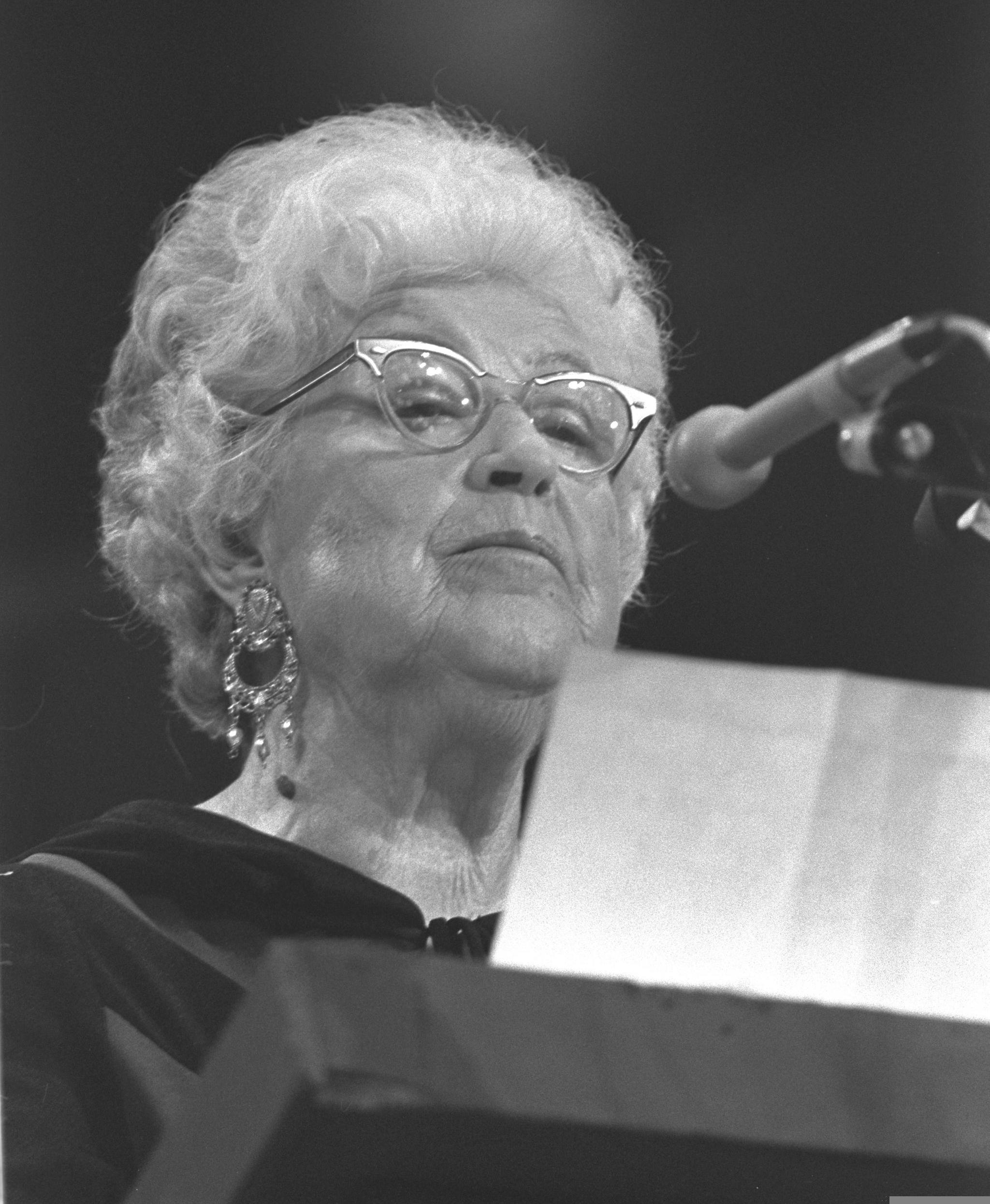 Veteran stage actress Miriam Bernstein Cohen.